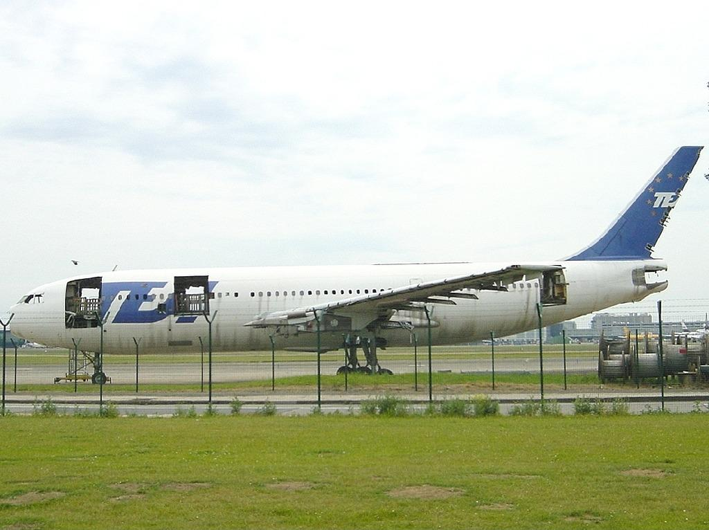 Author: Nick Mks